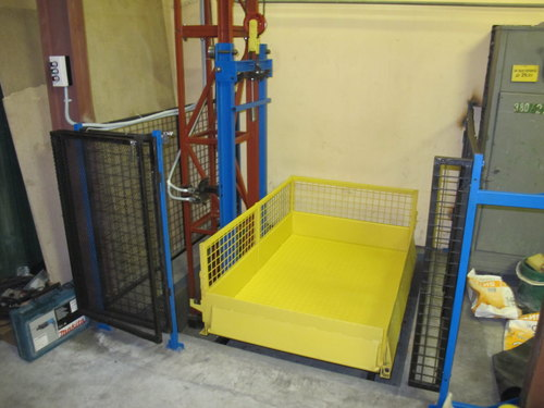 Mounting mast hoist inside the building with the tailgate with the arrangement of his pit and fencing